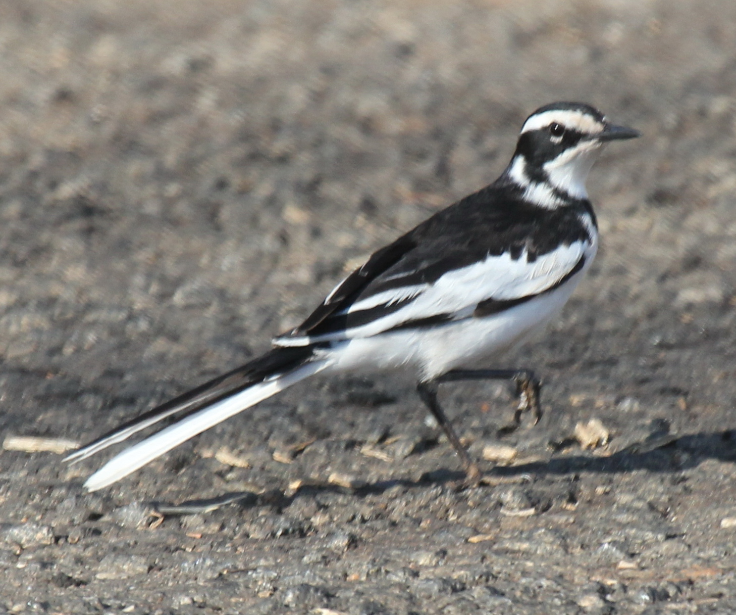 African Pied Wagtail (Motacilla aguimp) in South Africa